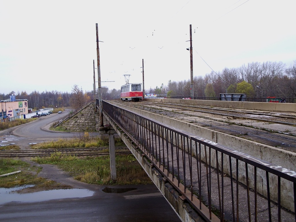 Tram overpass in Yaroslavl, Russia.